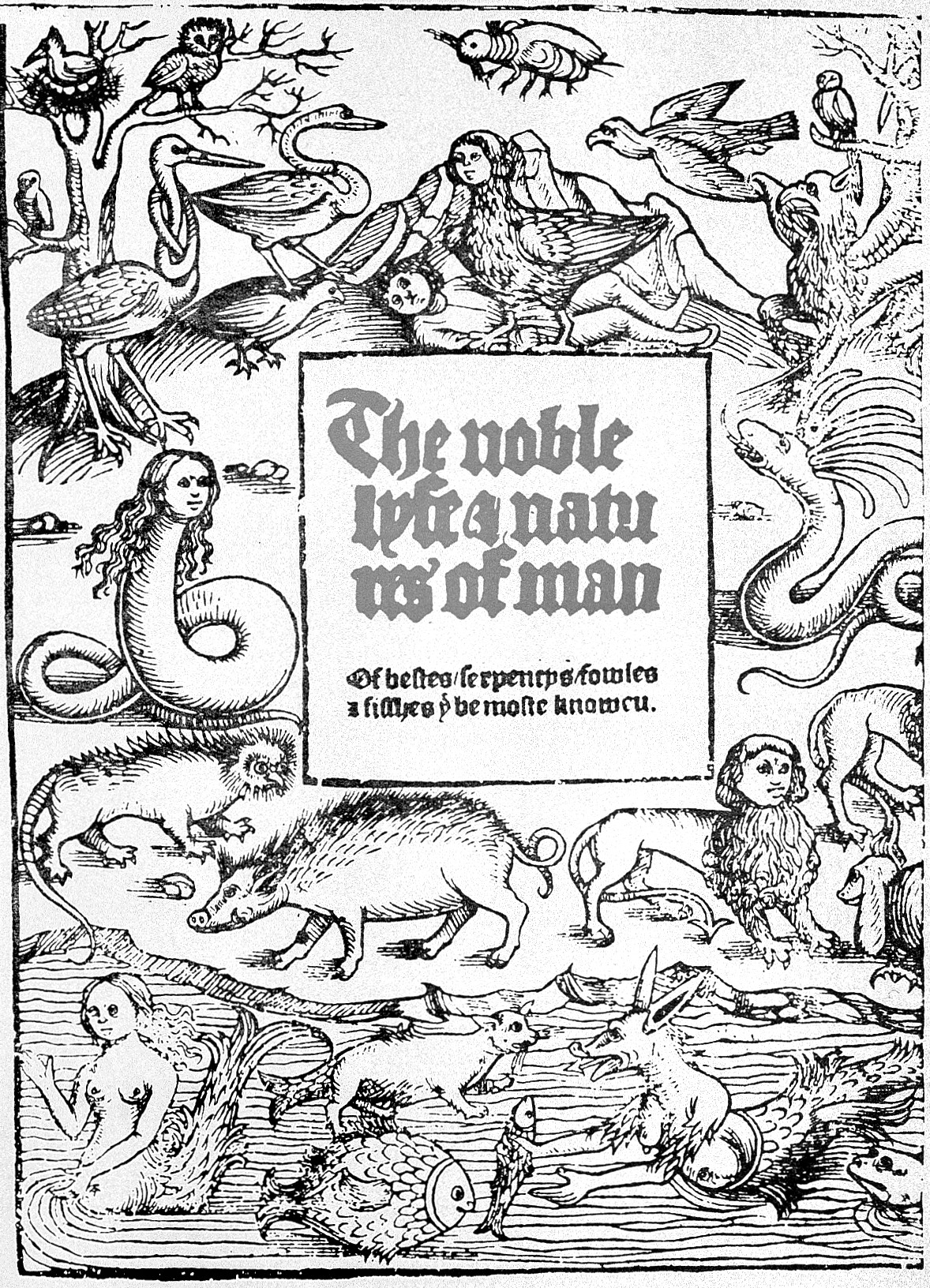 Title page Rare Books Keywords: Andrewe, Laurence